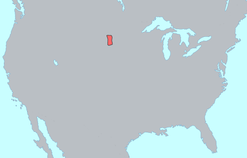 distribution of Arikara language